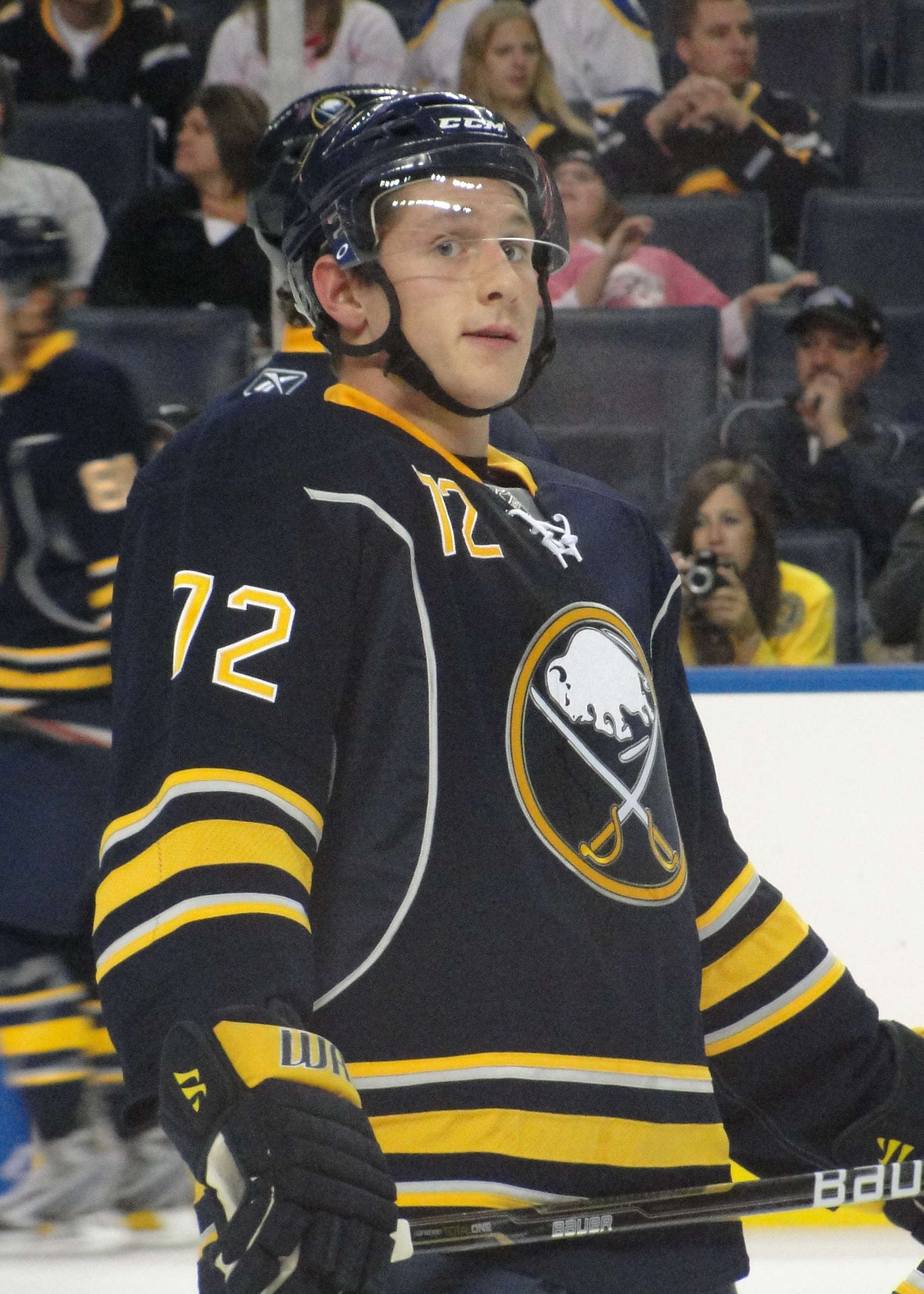 Luke Adam, lukes first NHL preseason game